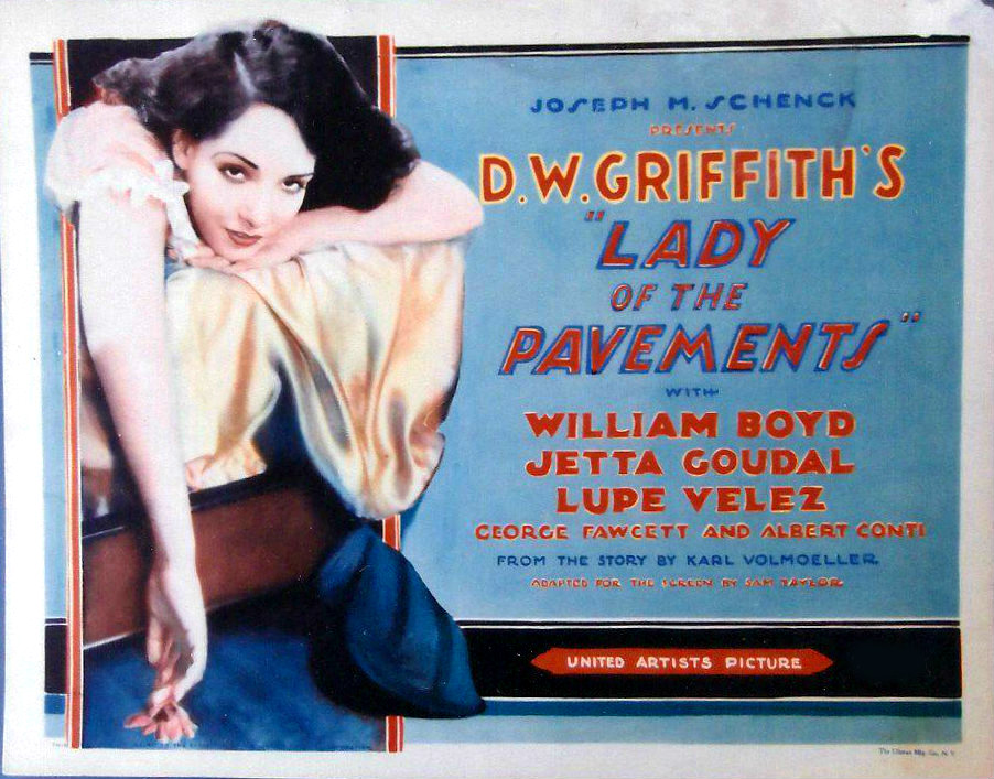 Lobby card for the American drama film Lady of the Pavements (1929).